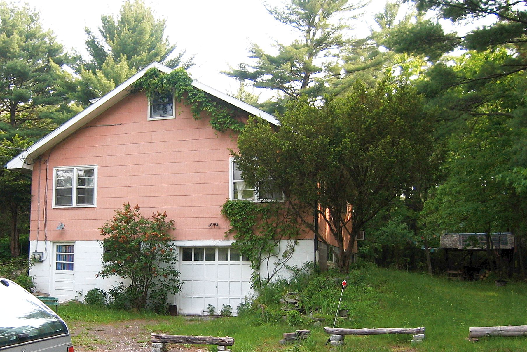 "Big Pink", home of The Band in late 60s, located at West Saugerties (near Woodstock), USA. It was to this house that Bob Dylan would eventually retreat to write songs and play them and try others, in its large basement.